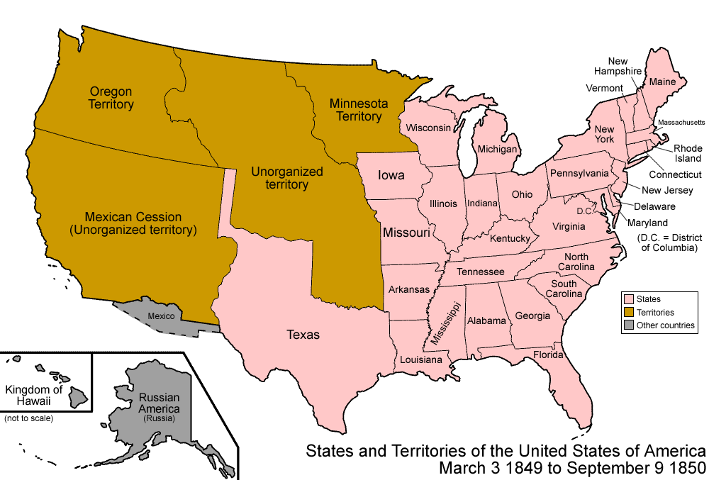 Map of the states and territories of the United States as it was from 1849 to 1850. On March 3 1849, Minnesota Territory was organized. On September 9 1850, several western areas changed: The Mexican Cession was organized, being split in to Utah Territory and New Mexico Territory, and one portion was admitted as the state of California. These two territories also included a portion of Texas, ceded to the federal government. Finally, a small area known as the Neutral Strip was not officially included in any state or territory. A small portion of Texas and the Mexican Cession became unorganized land. NOTE: This map is inaccurate as the Indian Territory (the majority of which comprises the current state of Oklahoma and existed from the early 1830s until Oklahoma statehood in 1907), is not defined here.